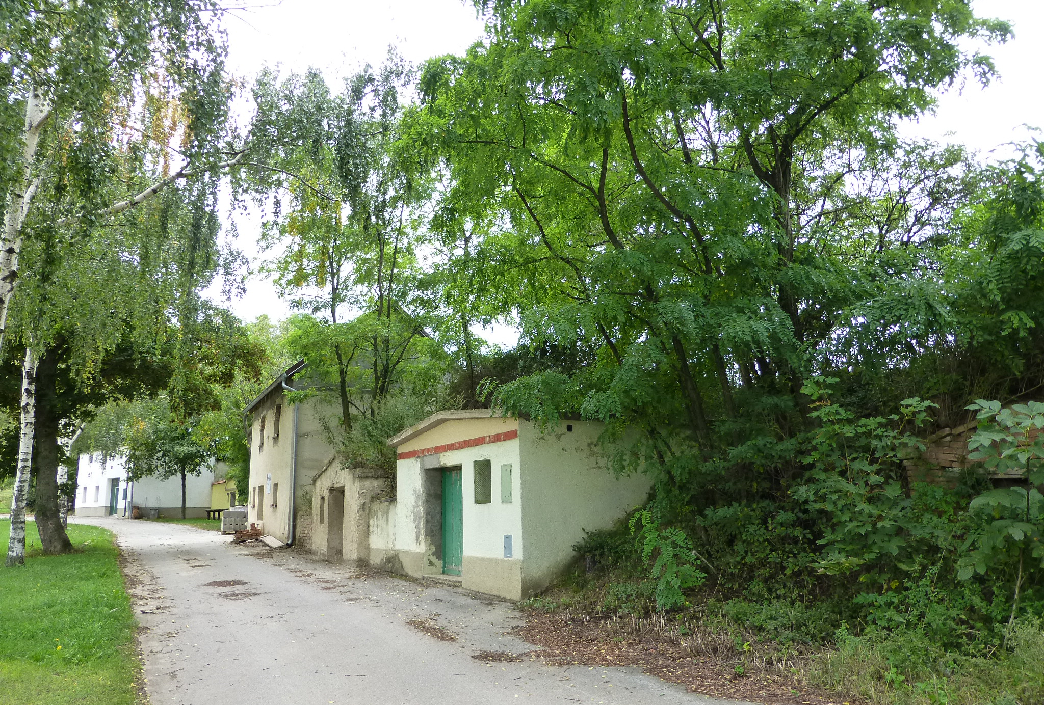 Wine cellars between Schrattenberg and Herrnbaumgarten, Weinviertel, Lower Austria. At the right, one almost hidden.